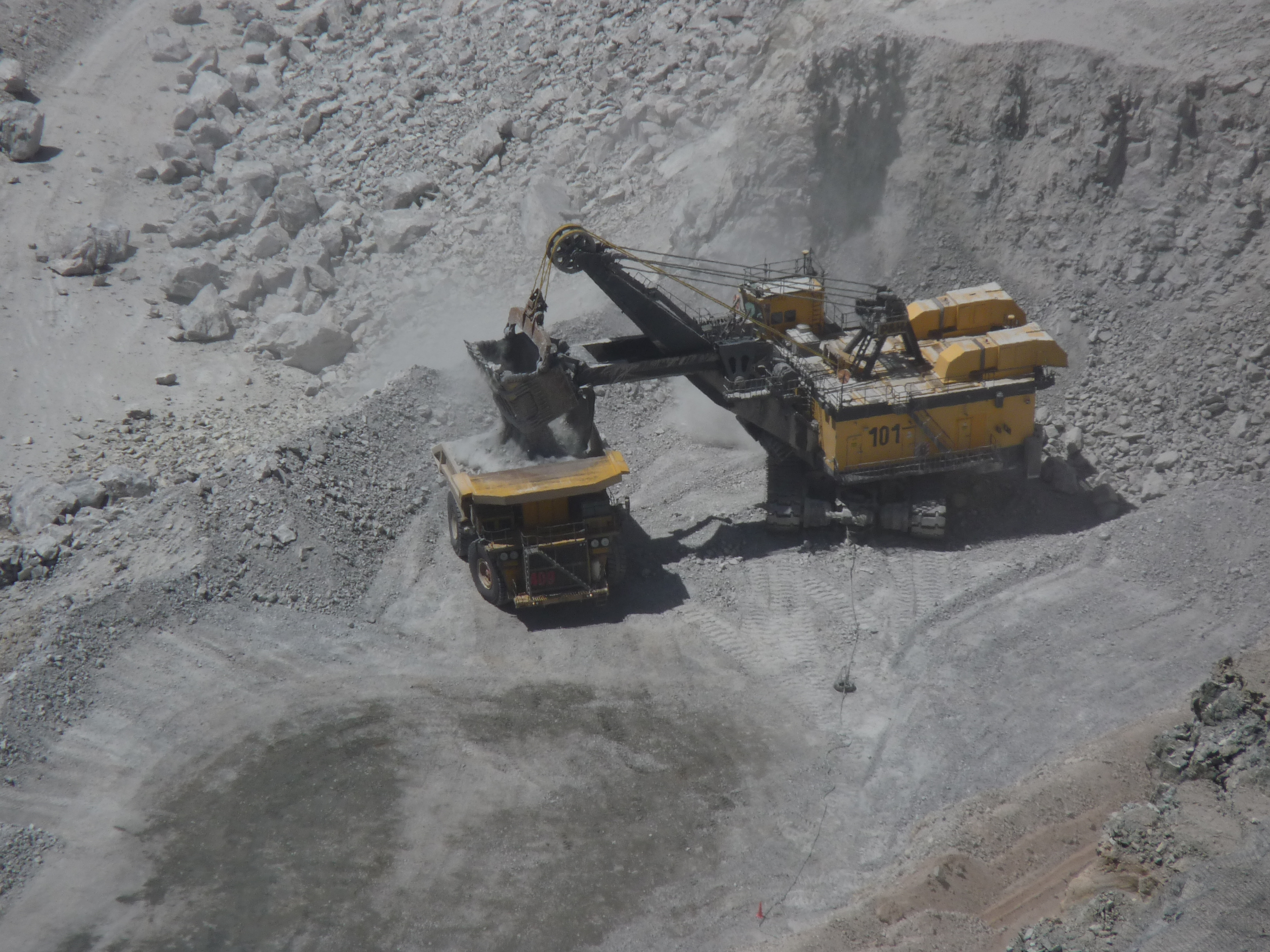 Loading of rock from the Chuquicamata Copper mine in Chile